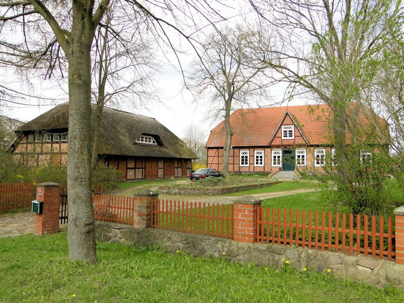 Former rectory, Cultural heritage monument in Dobbertin, district Ludwigslust-Parchim, Mecklenburg-Vorpommern, Germany